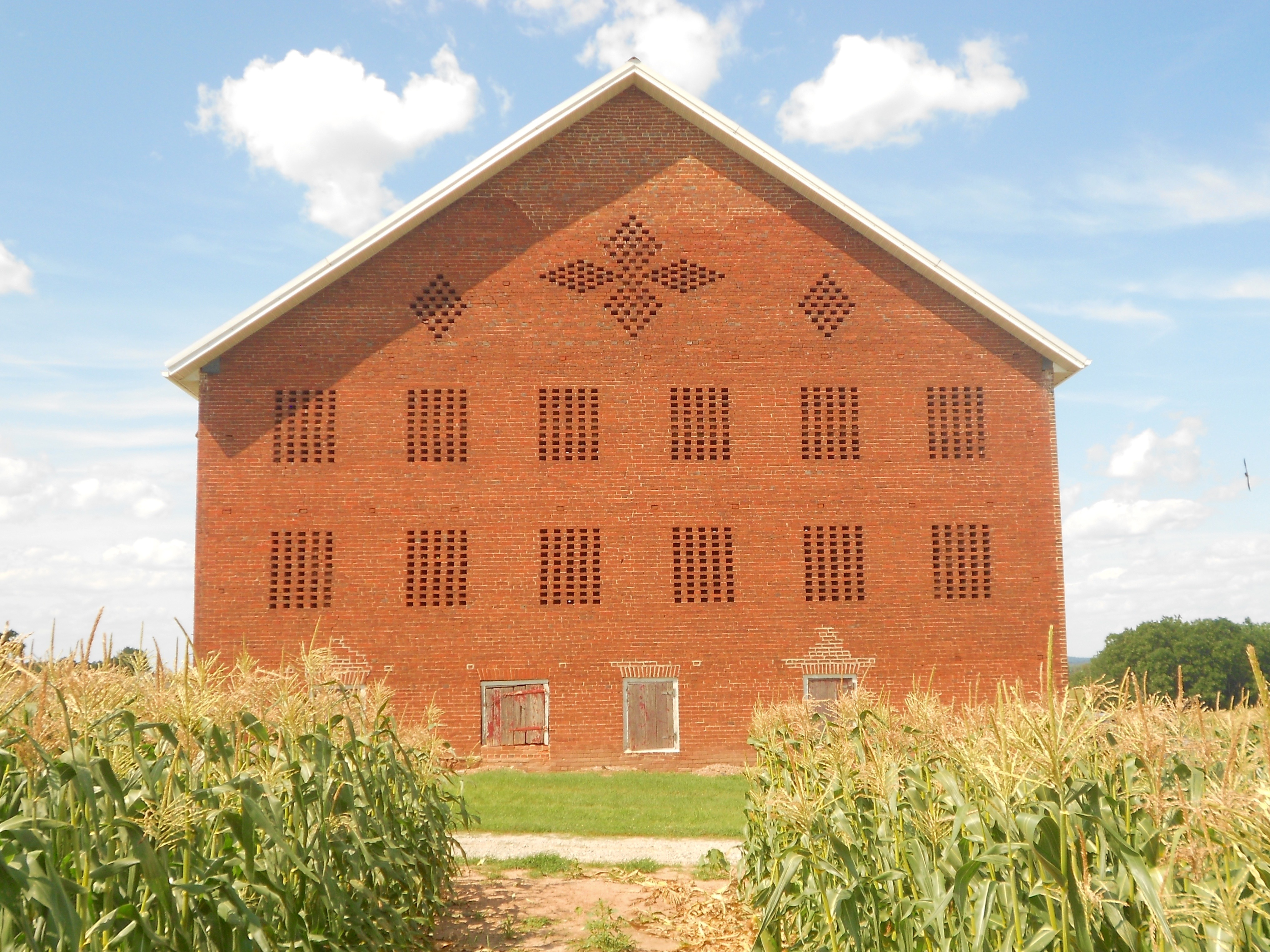 Barn in Hamilton Township, Adams County, Pennsylvania (just south of the strangely named borough of east Berlin). Painted datestone on the other side of the barn says it was built in 1877